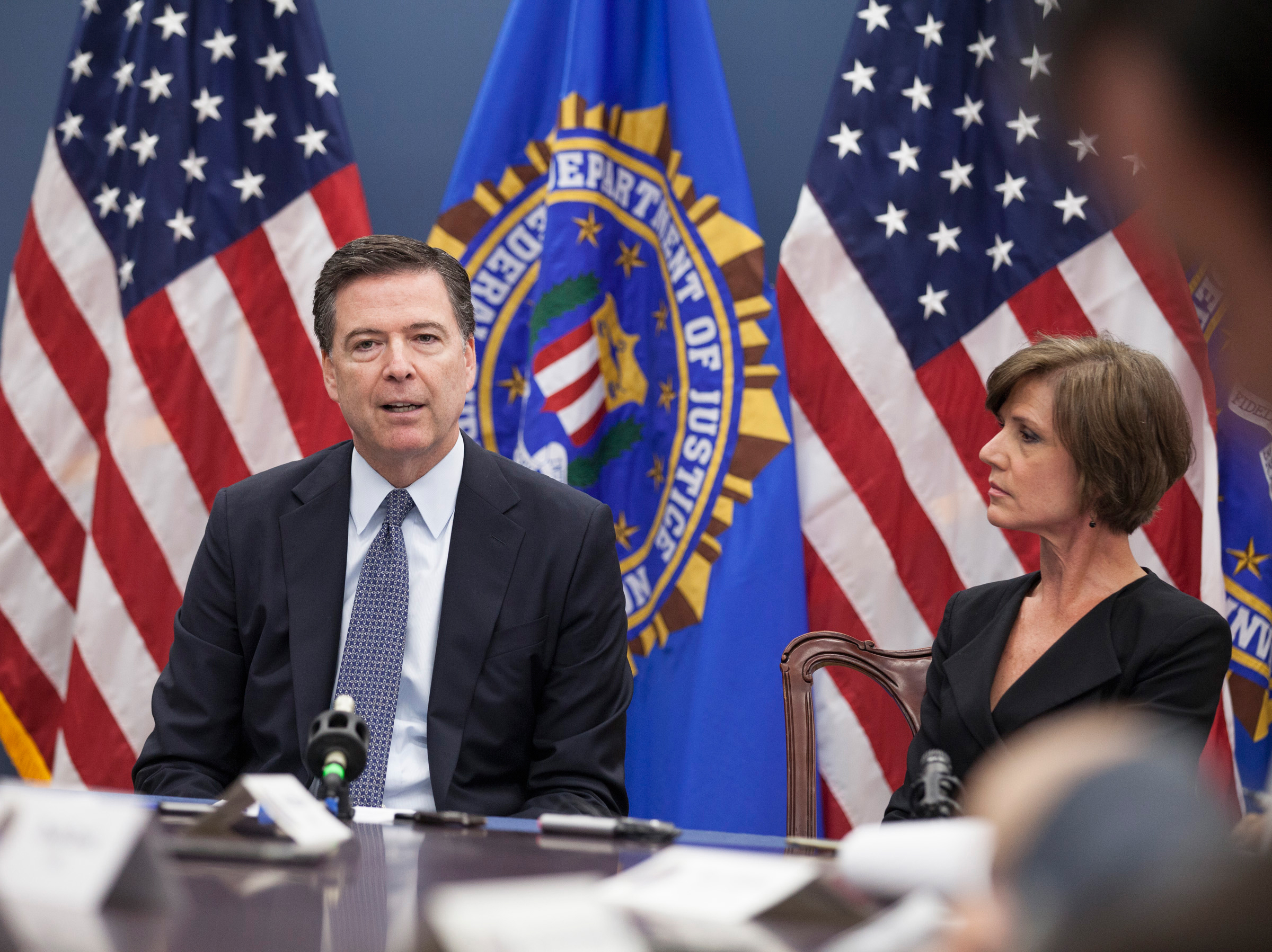 FBI Director James Comey — joined by Deputy Attorney General Sally Yates — addresses members of the media during a press briefing held June 13, 2016 at FBI Headquarters regarding the recent mass shooting at nightclub in Orlando, Florida. Additional information: [1]